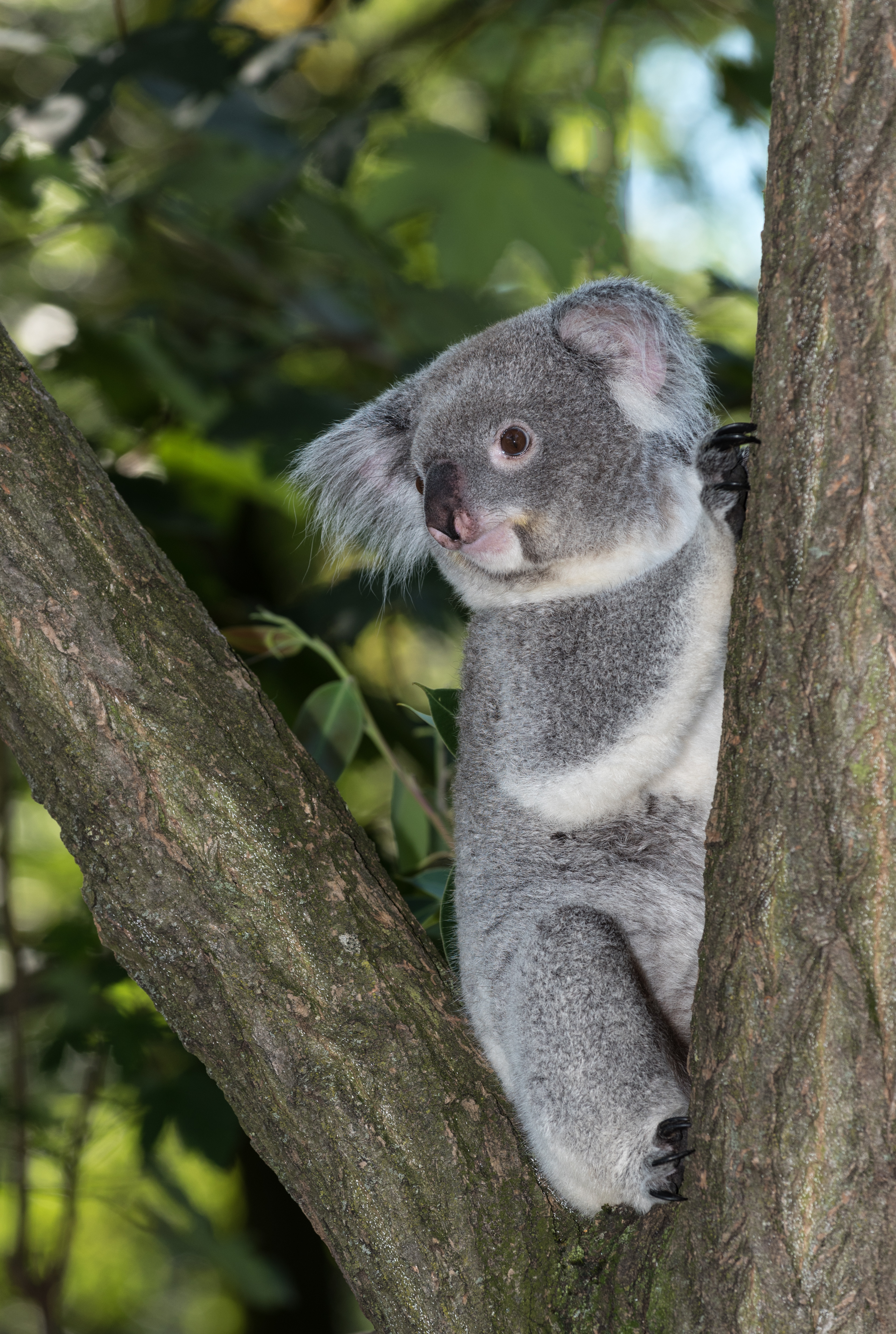 Koala in Duisburg Zoo